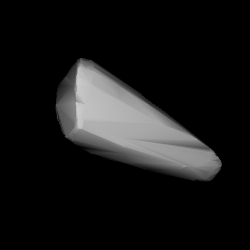 3D convex shape model of 4230 van den Bergh, computed using light curve inversion techniques. J. Hanuš, J. Ďurech, M. Brož, B. D. Warner (June 2011). "A study of asteroid pole-latitude distribution based on an extended set of shape models derived by the lightcurve inversion method". Astronomy and Astrophysics 530: A134. ISSN 0004-6361. arXiv